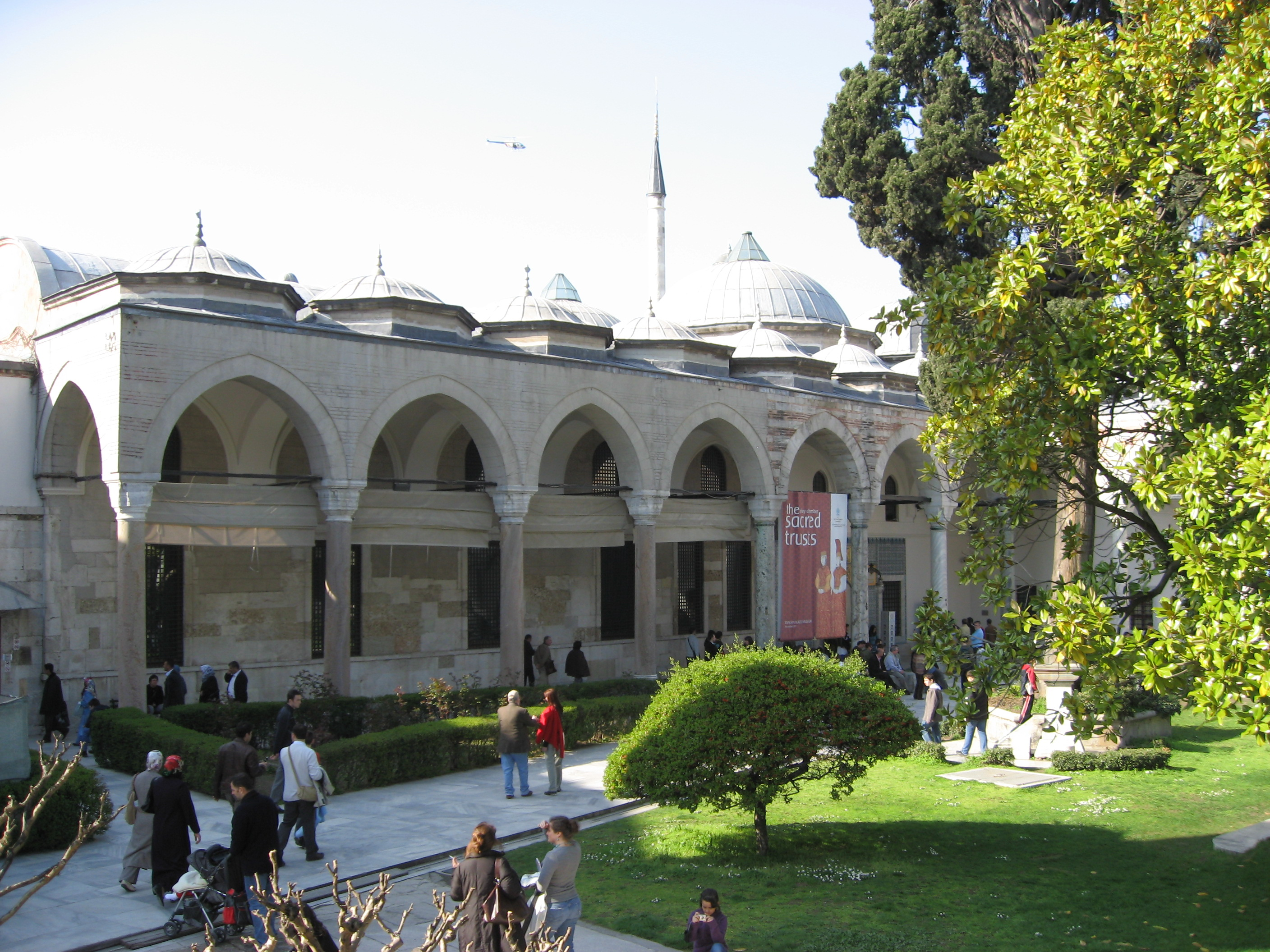 The Privy Chamber at Topkapi Palace in Istanbul.